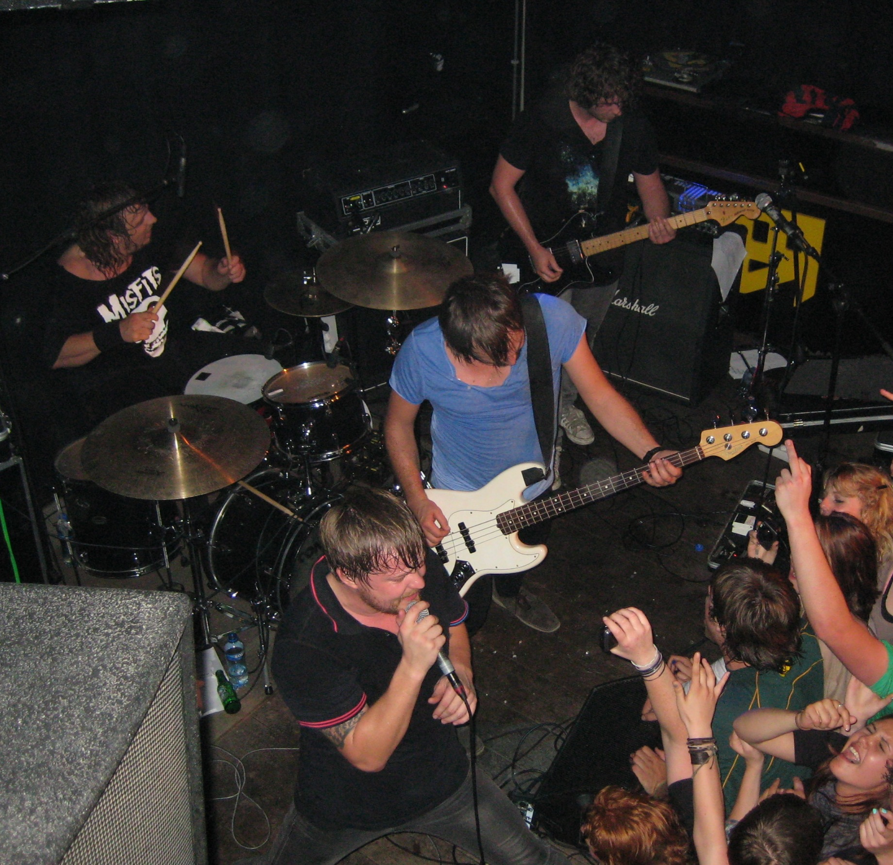 The South-Afrikan band Fokofpolisiekar performing in Amsterdam